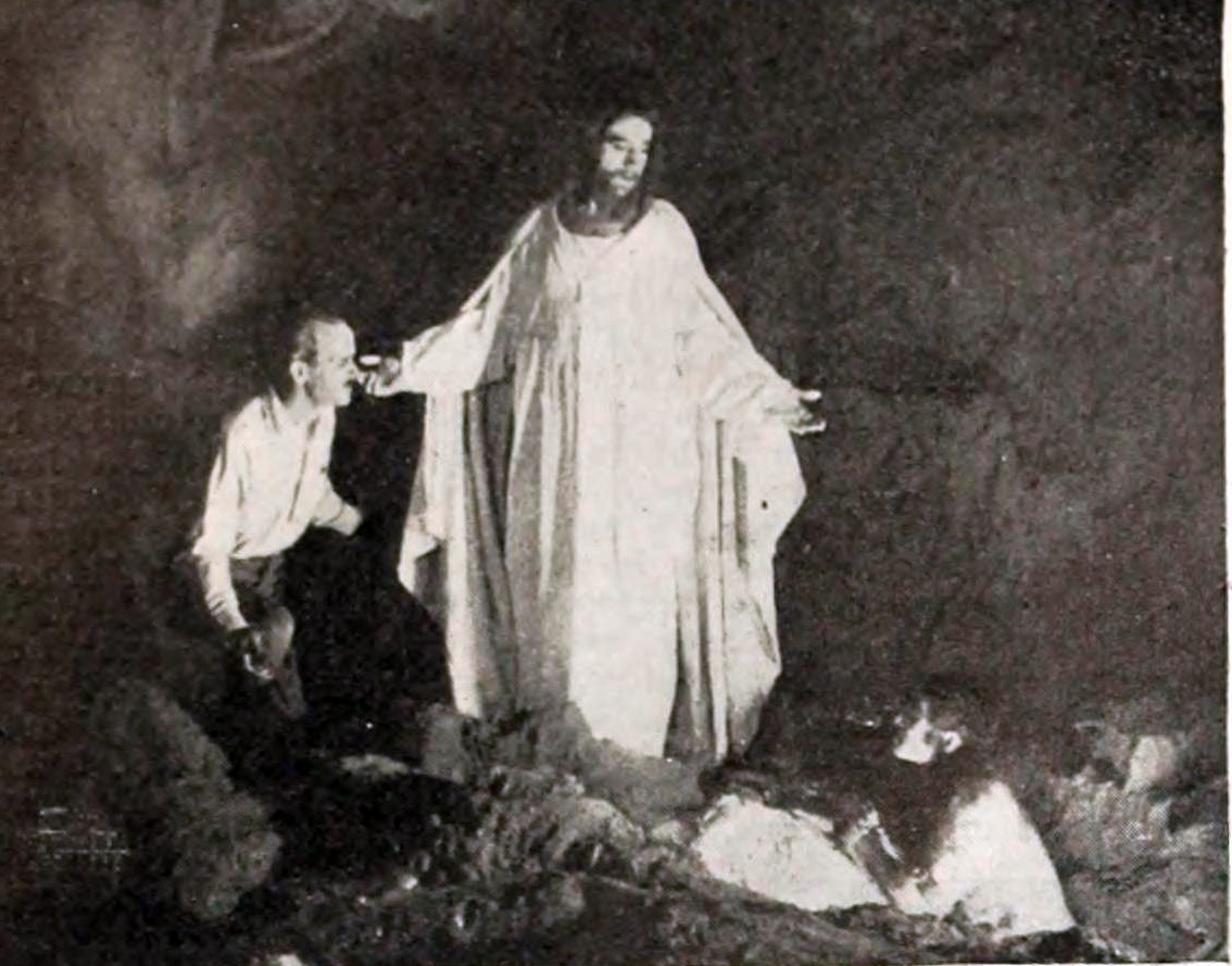 Film still of Civilization published in The Moving Picture World.